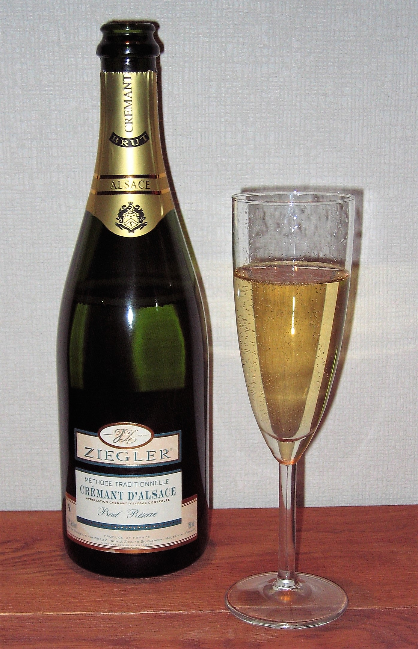 Bottle of Crémant d'Alsace (a sparkling wine) from J. Ziegler, Sigolsheim with glass.